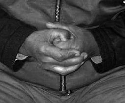 Hands Neigong